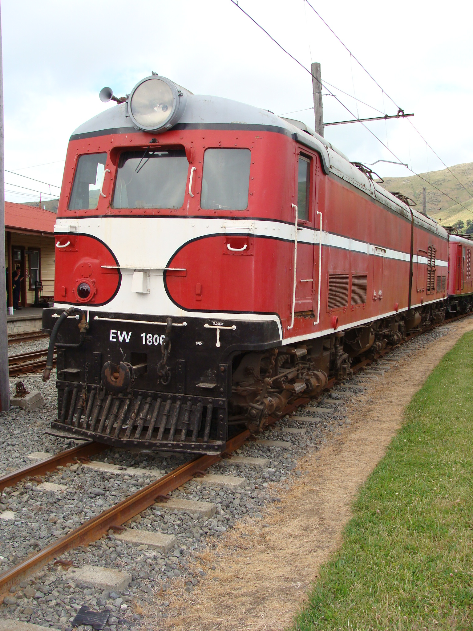 NZR electric locomotive Ew 1806 in the Moorhouse station yard at the Ferrymead Heritage Park.